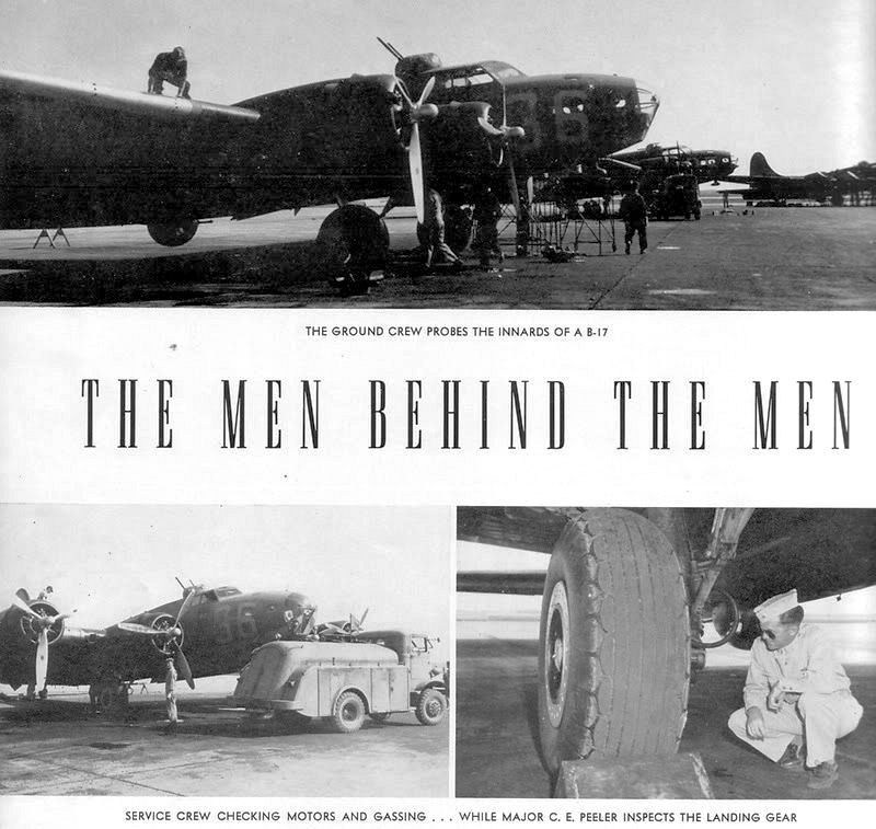 Hendricks Army Airfield - 1942 Yearbook - scenes